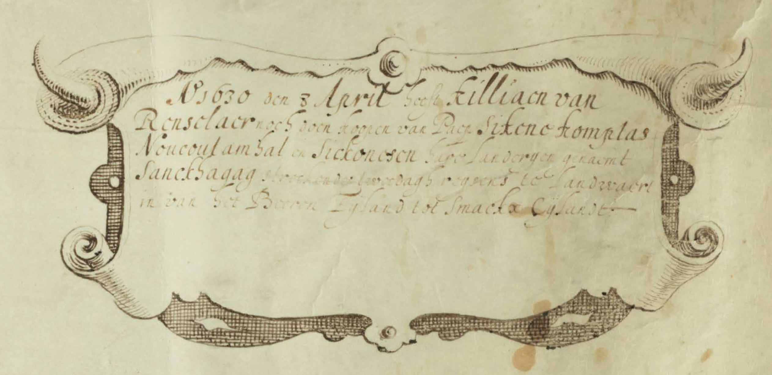 Right shield of the Map of Rensselaerswyck